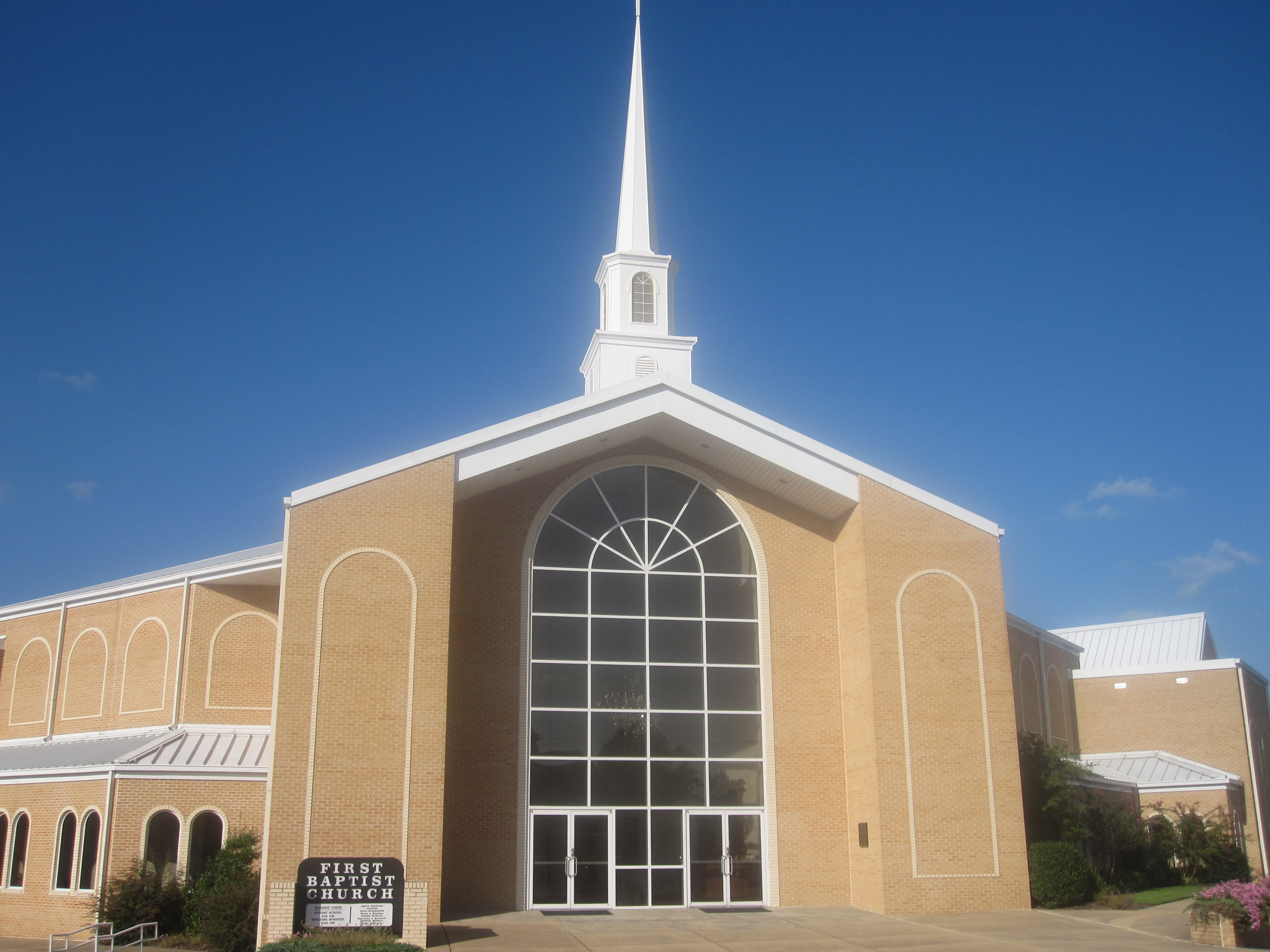 First Baptist Church of Magnolia, AR